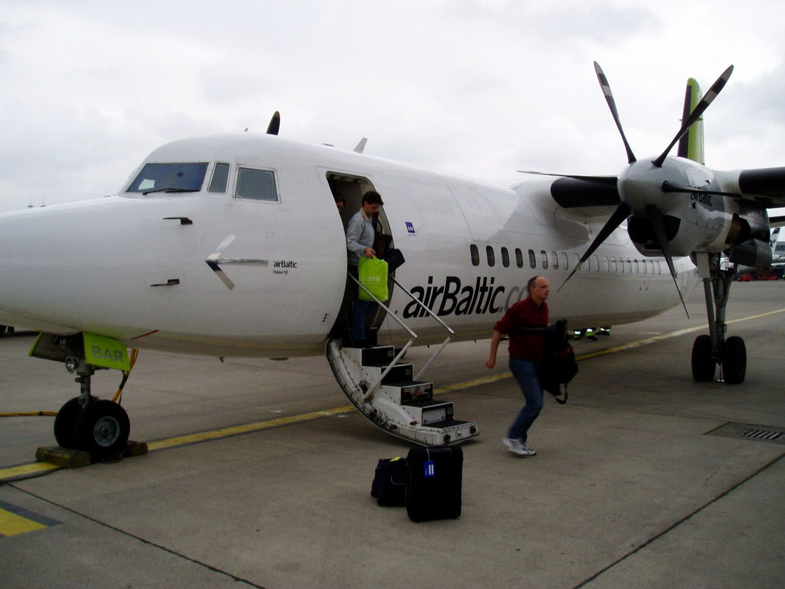 AirBaltic Fokker 50 at Riga Airport